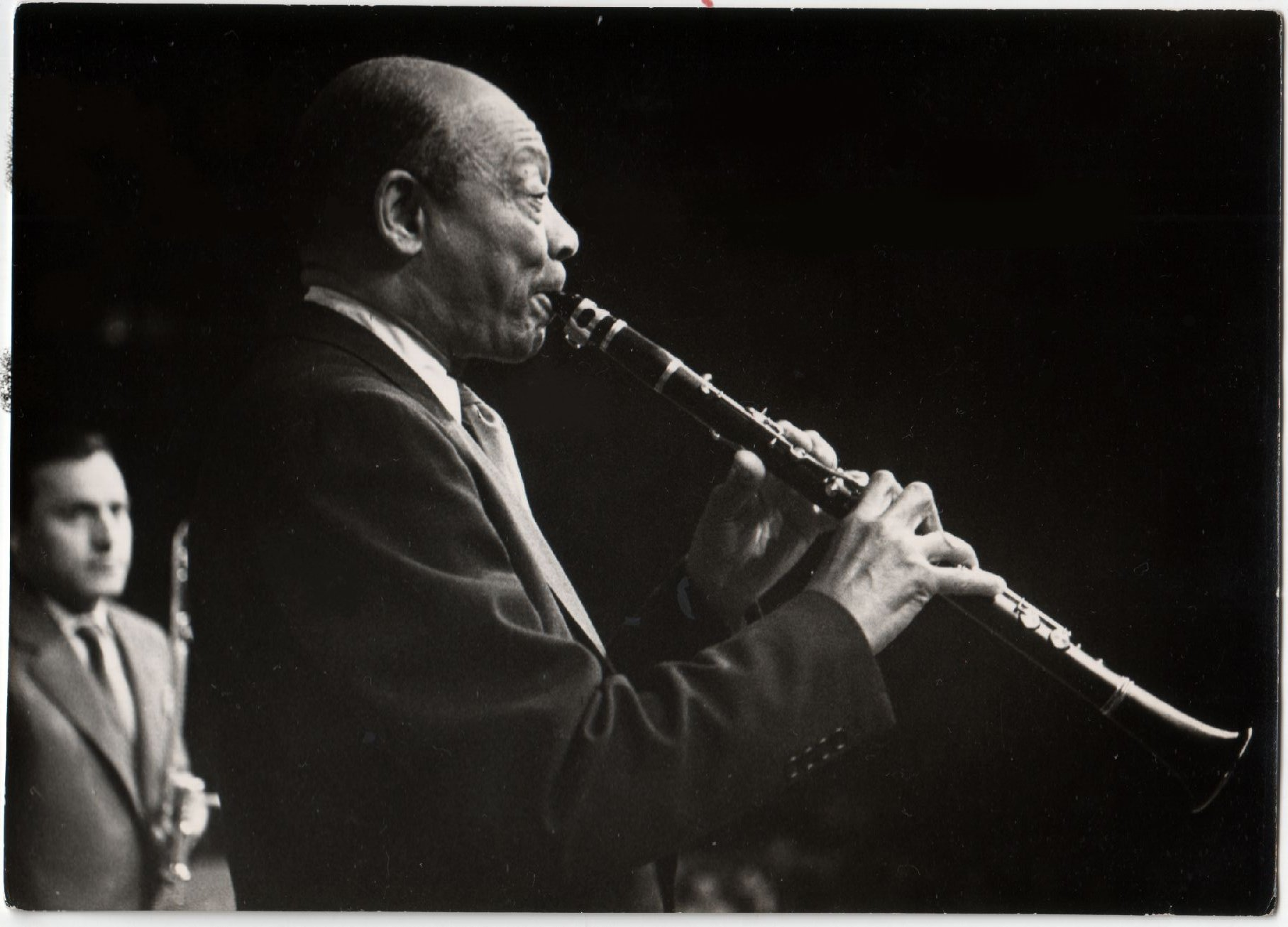 Edmond Hall, with music band "Orchestr G.Broma", Czechoslovakia, Brno, Zimní stadion, 1962